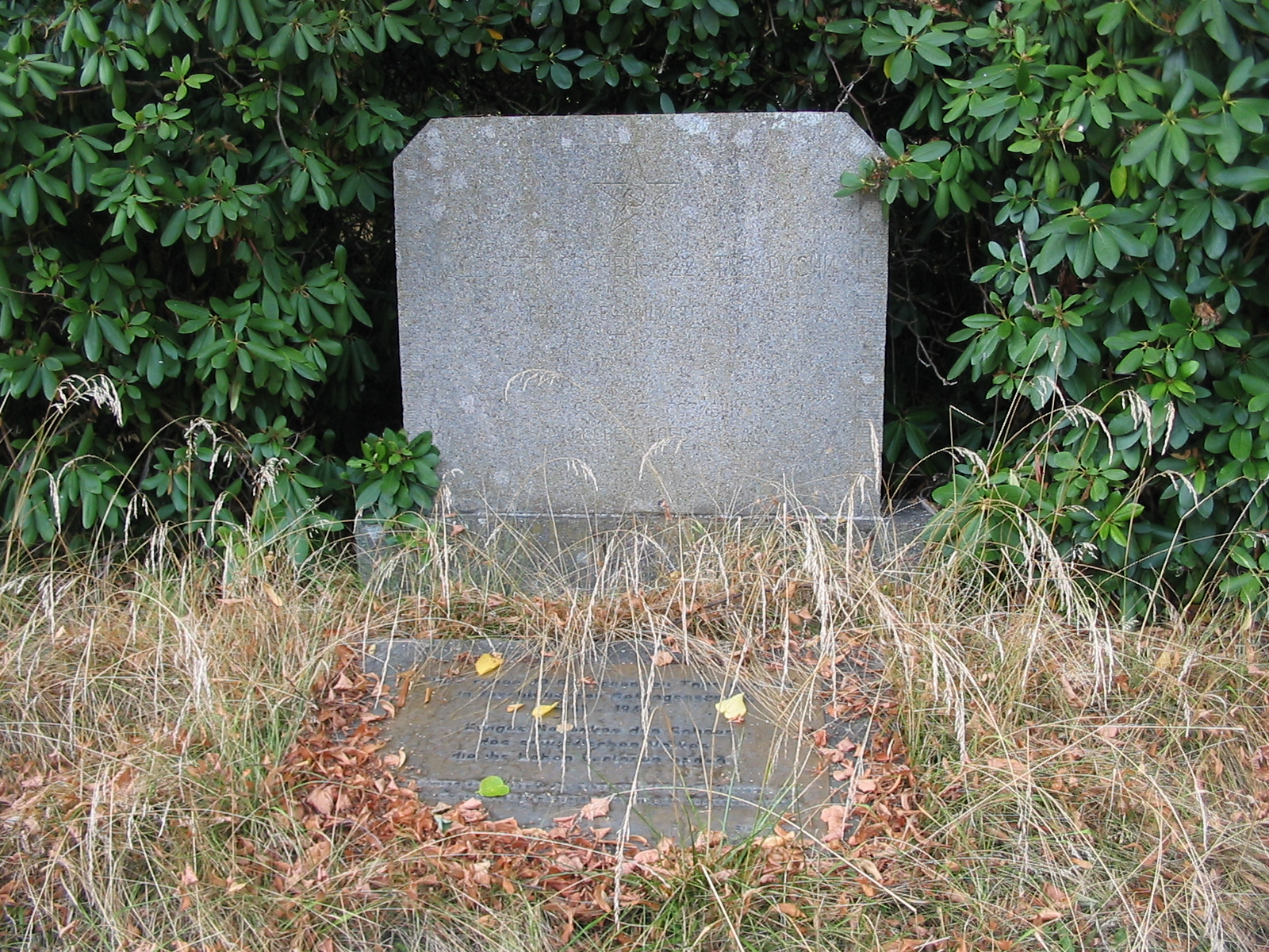 memorial for 22 russian forced labourers on jewish cemetery in Witten-Herbede from 1946 with inscription in russian language